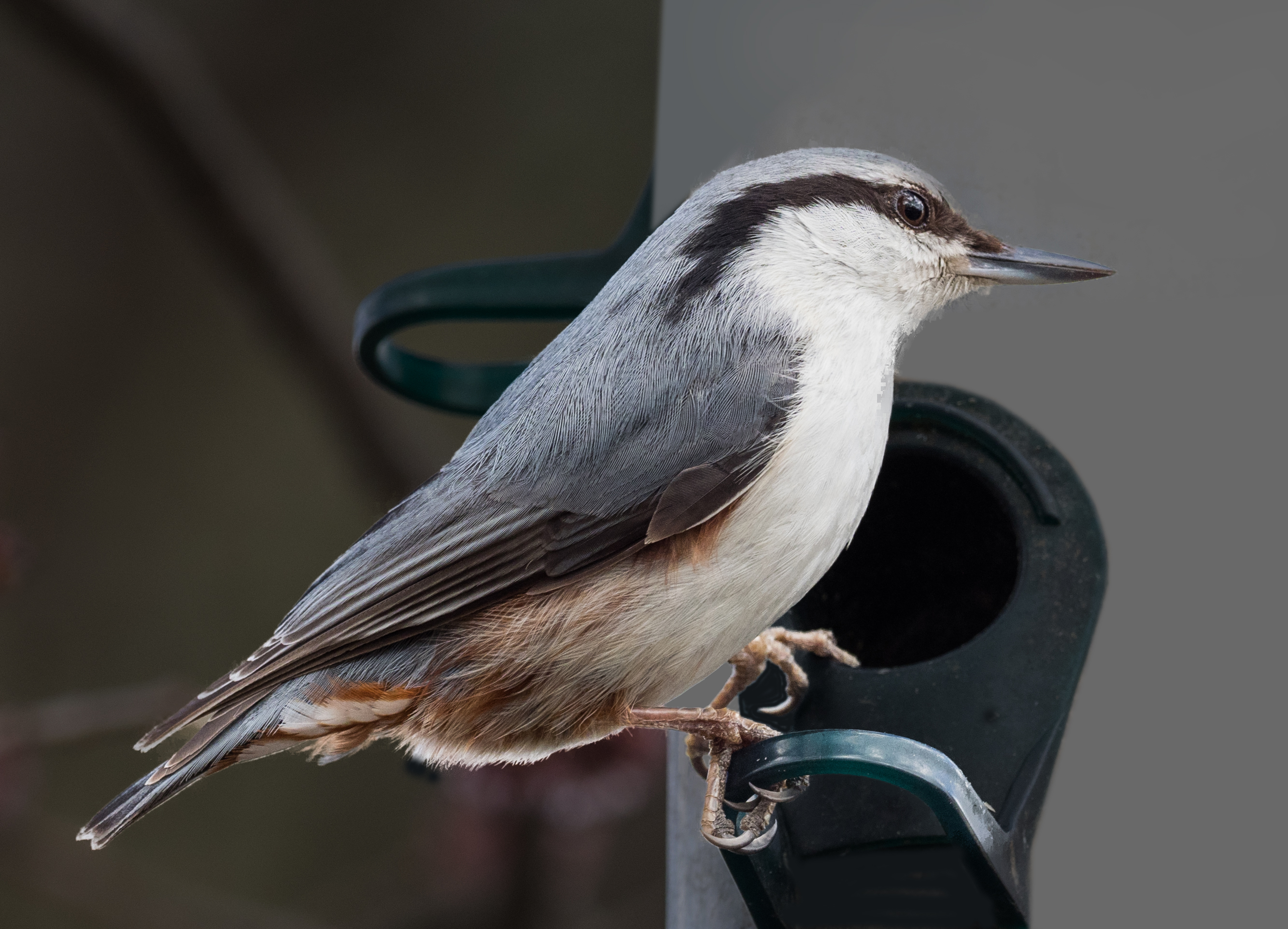 Birds, Vaxholm, Sweden, April 2018